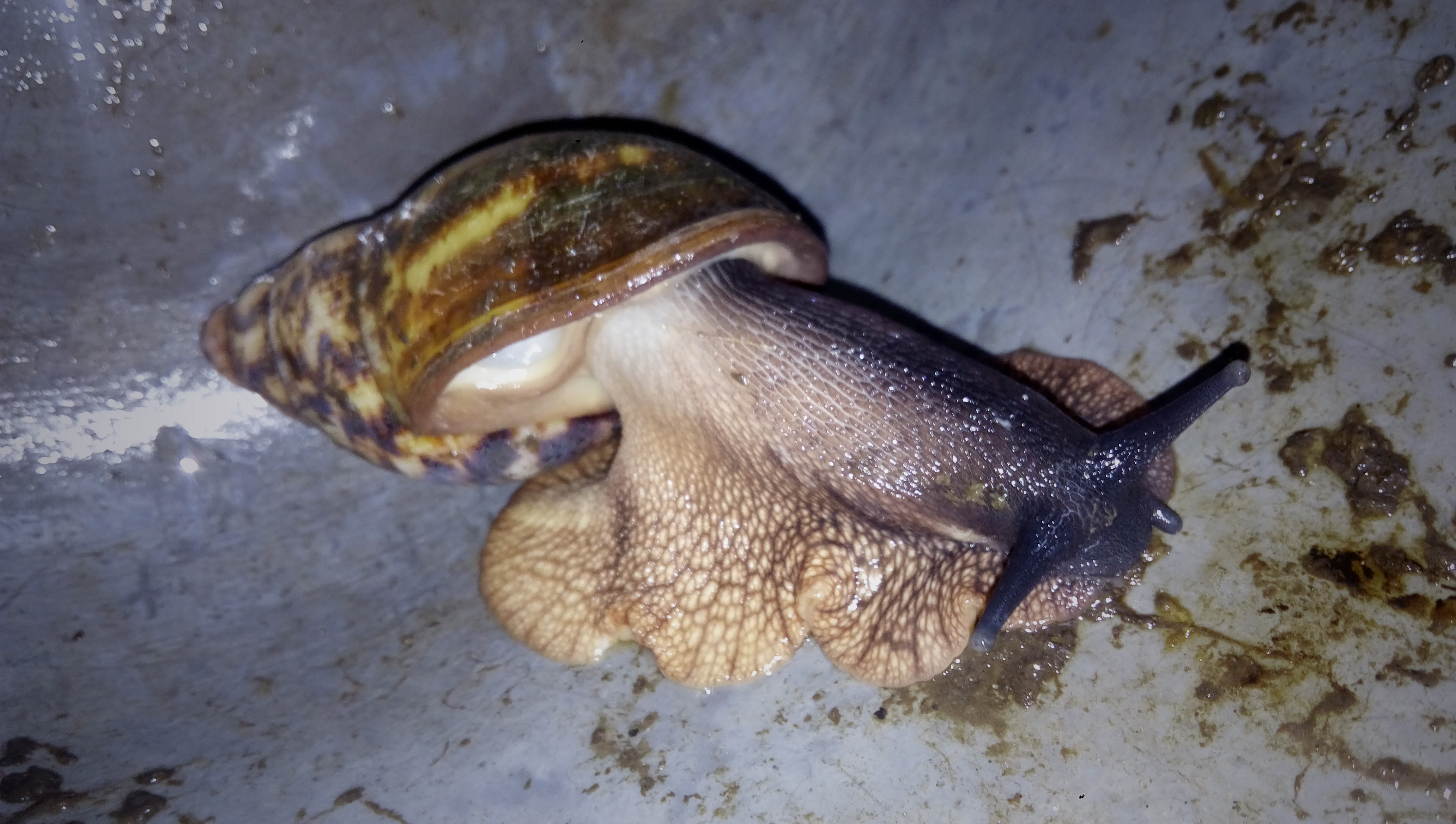 West African Giant Snail (Archachatina marginata) or banana rasp snail, is a species of air-breathing tropical land snail